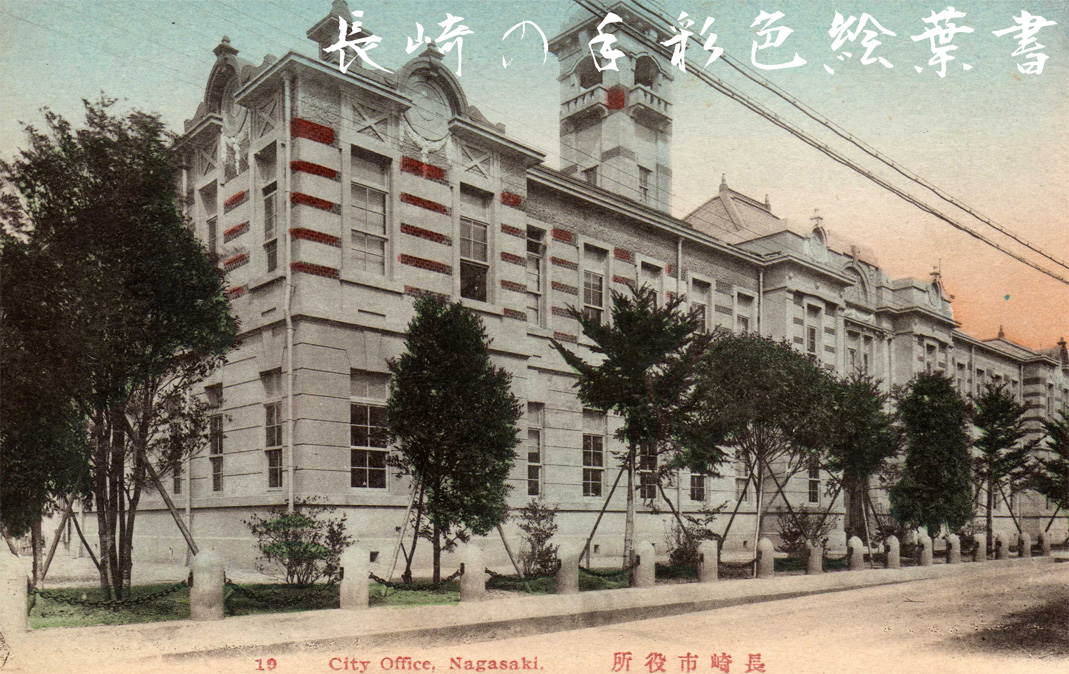 Japanese hand tinted postcard view of the Nagasaki City Hall in the Taisho period